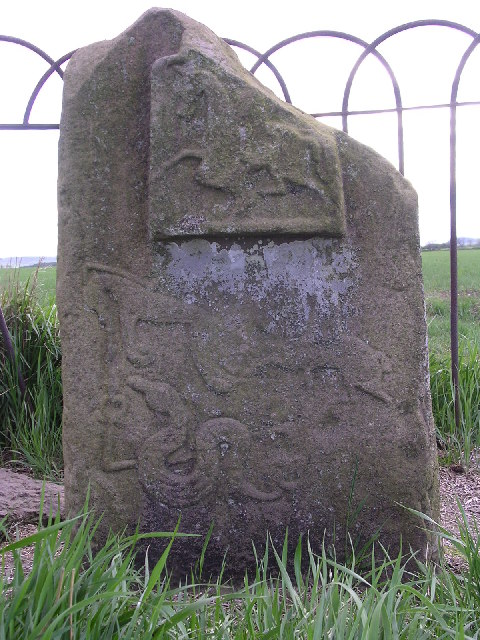 Martin's Stone. This Pictish symbol stone is in the middle of a field, surrounded by an iron fence. Martin's Stone has long been associated with the tale of the Dundee Dragon. The farmer at nearby Pitempton had nine daughters, and one day he sent one to the well for water. When she did not return, he sent another, and so on until all nine were missing. When he investigated he found their mangled remains along with a great serpent or dragon. A young man named Martin, lover of one of his daughters, attacked the dragon and eventually slew it. The stone is 1.2m in height by 0.7m width, and is carries both Pictish and Christian symbols